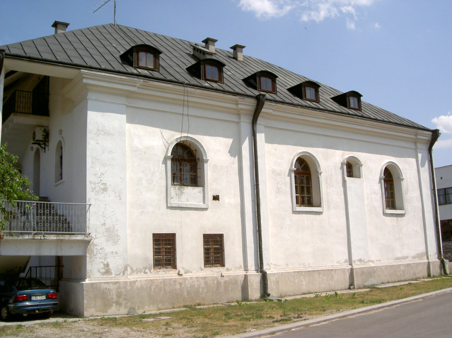 A former synagogue in Józefów Biłgorajski.